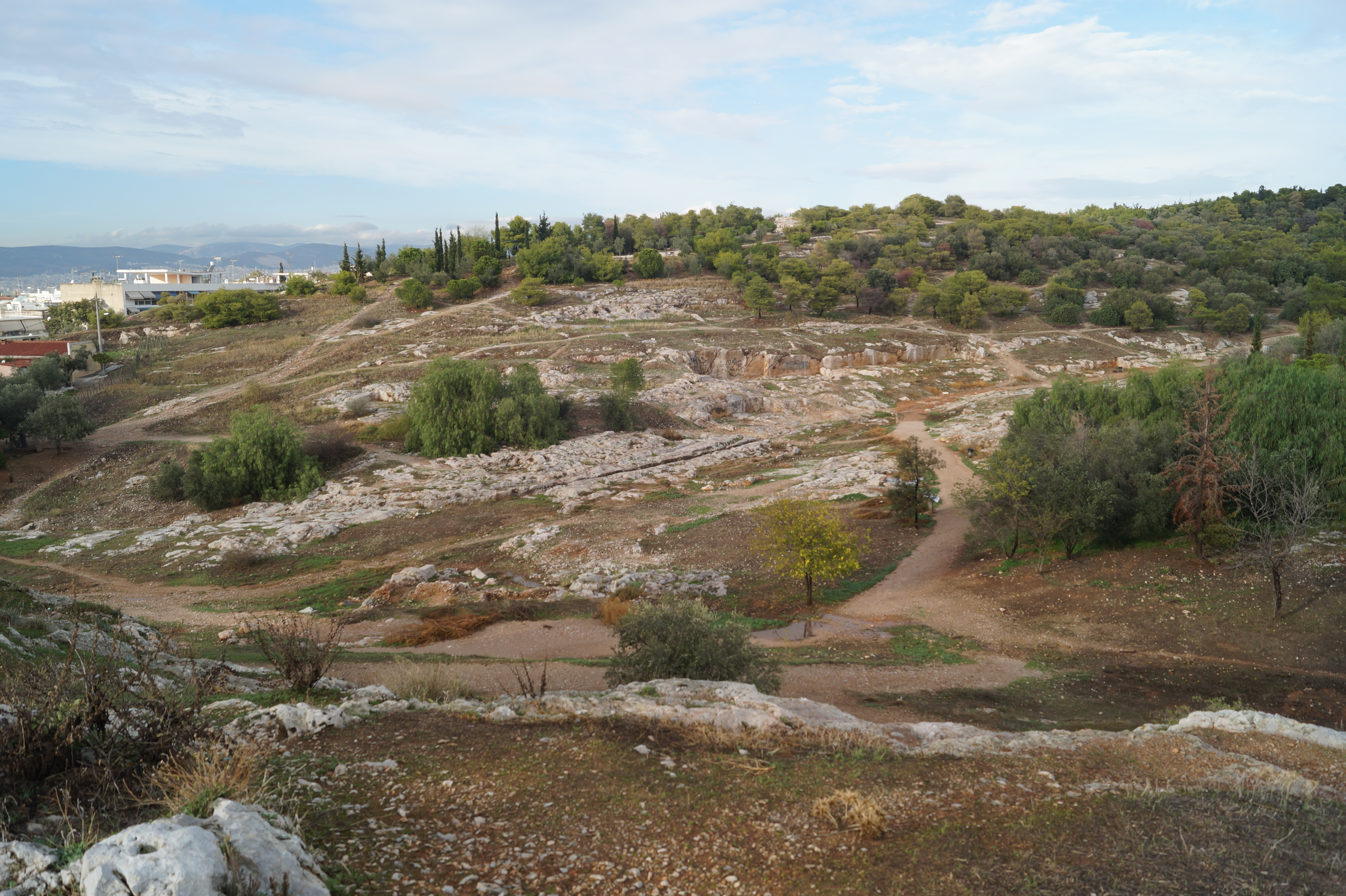 Athens, Greece: Ancient deme of Koile. View on the site of the modern Bastia-theatre (built in 1939) which was destroyed in 2001.